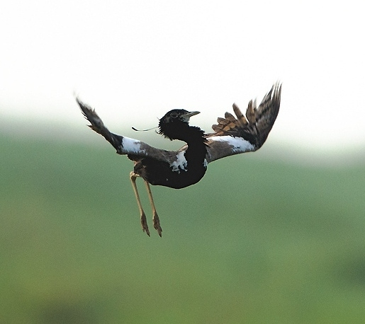 Male of Lesser Florian while tooting